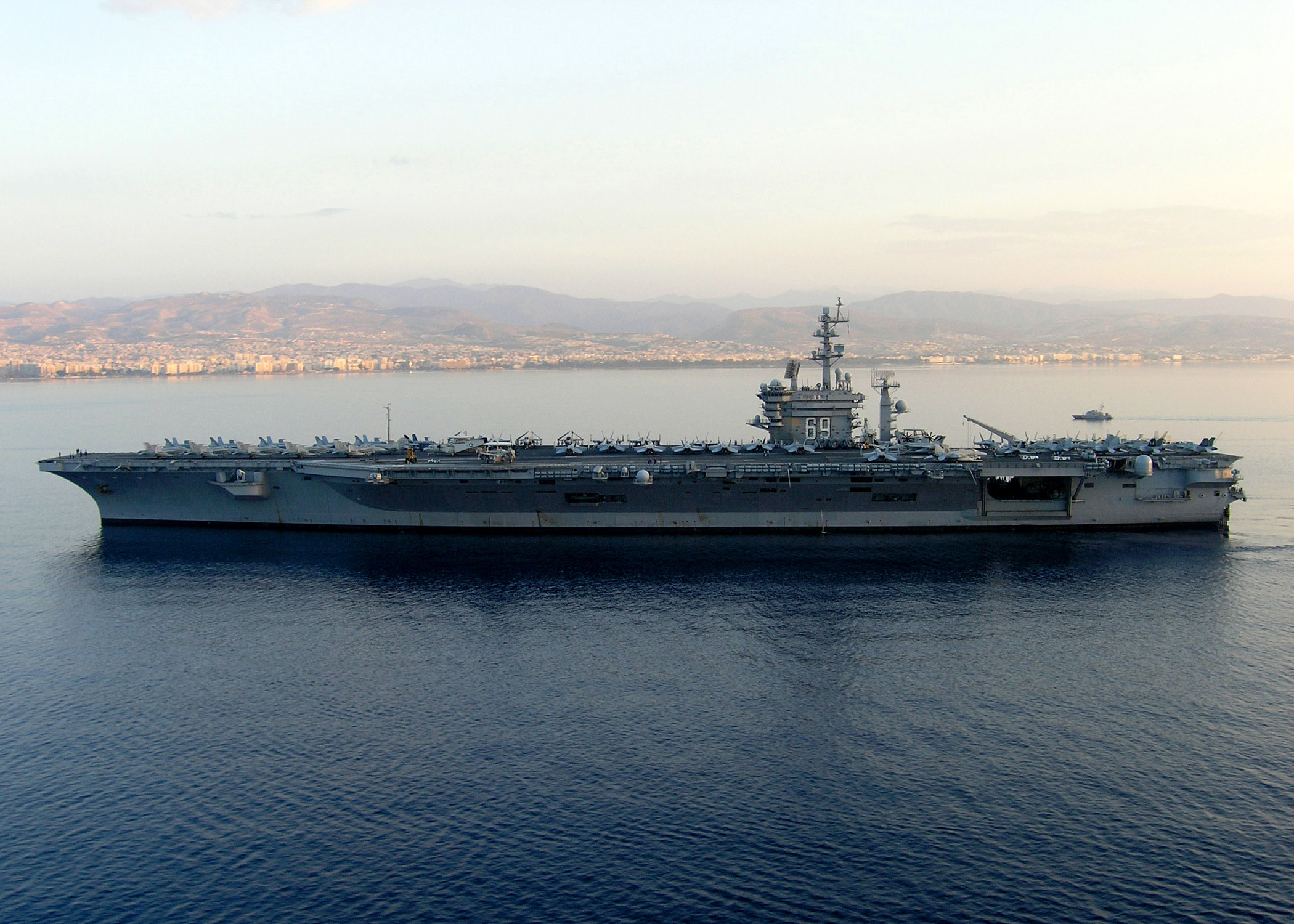 Mediterranean Sea (Oct. 25, 2006) — The flagship for Commander, Carrier Strike Group Eight (CCSG-8), Nimitz-class aircraft carrier USS Dwight D. Eisenhower (CVN 69), anchors off the coast of Cyprus for a port visit. Eisenhower departed her homeport of Norfolk, Va., Oct. 3, for a regularly scheduled deployed in support of maritime security operations (MSO). Embarked aboard Eisenhower are aircraft assigned to Carrier Air Wing Seven (CVW-7). U.S. Navy photo by Aviation Warfare Systems Operator 2nd Class John Frietze (RELEASED)